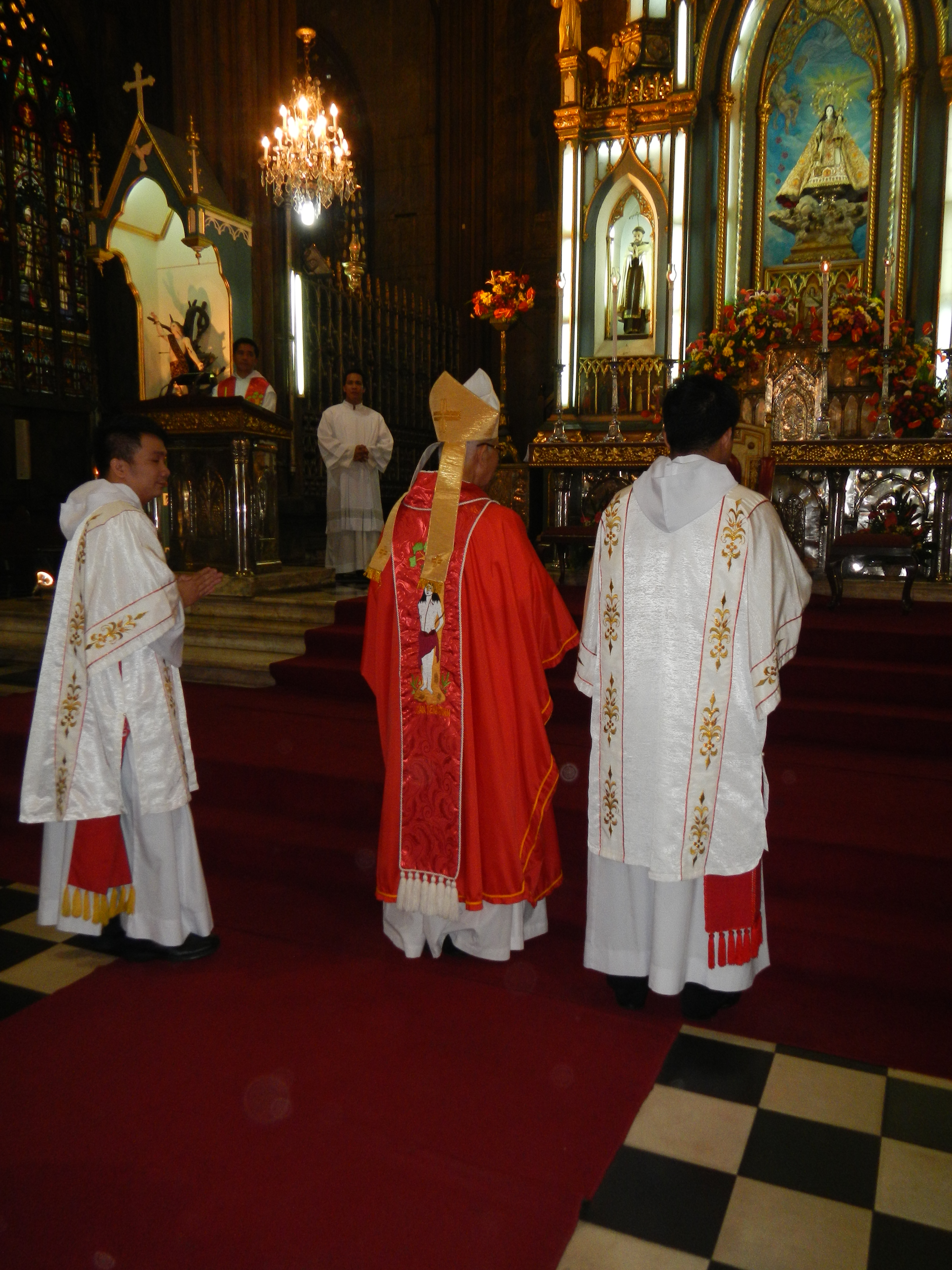 Upload Wizard photos of - Basilica of San Sebastian, Manila[1]The Basilica Minore de San Sebastián, better known as San Sebastián Church, is a Roman Catholic minor basilica in Manila, the Philippines. It is the seat of the Parish of San Sebastian and the National Shrine of Our Lady of Mt. Carmel.[2] - I retake or re-photograph this Great Church, the only steel church in the Philippines, since all the lights are out being the Feast Day, January 20, 2014 of St. Sebastian, and the 73rd Grand Anniversary of St. Sebastian College, with Grand Procession and the Holy Mass is celebrated by Bishop Teodoro Buhain, DD [3] [4] Auxiliary Bishop of Manila Arzobispado de Manila, Arzobispo St., Intramuros